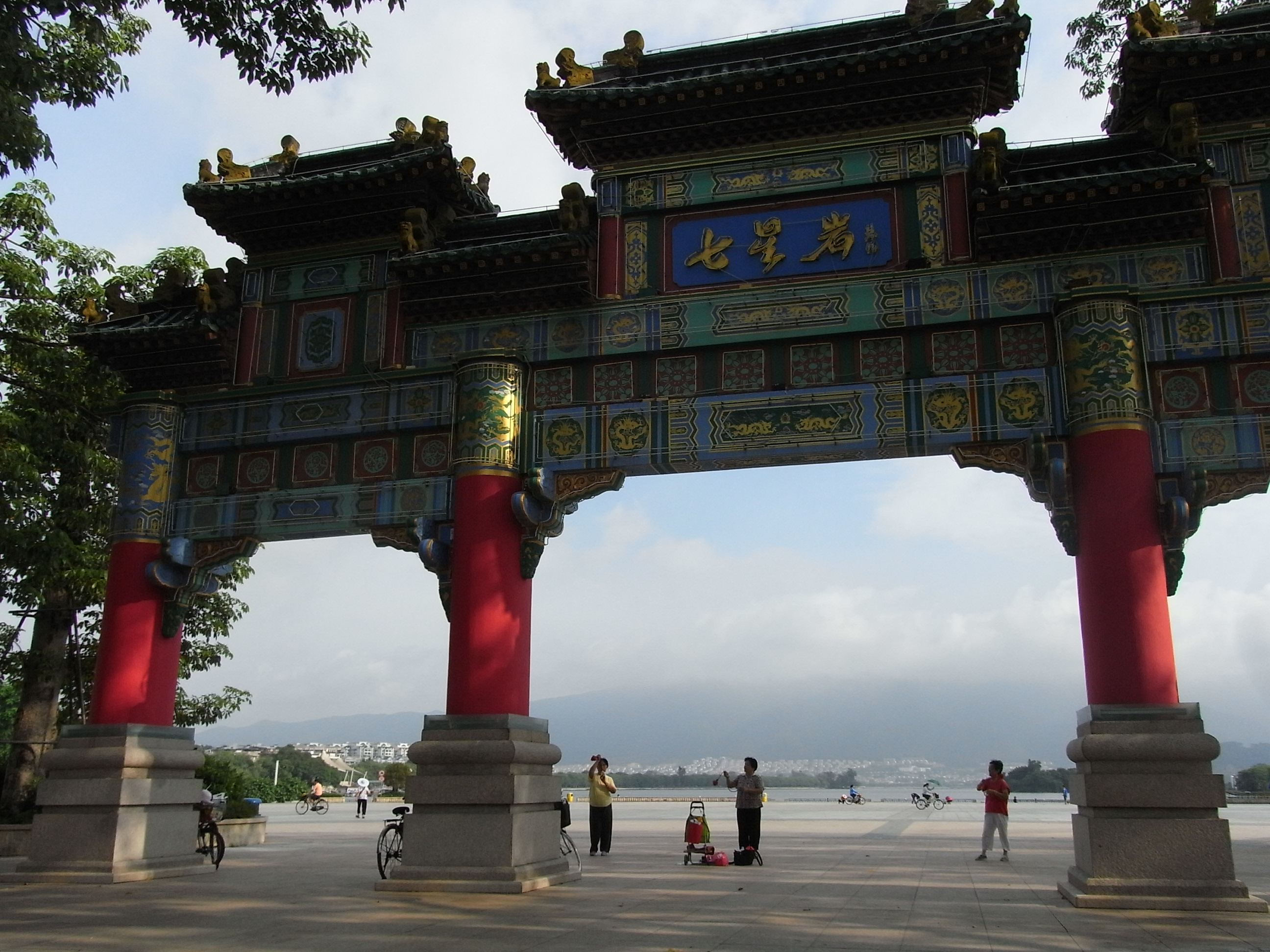 Seven Star Crags Park, 肇慶市 七星岩公園廣場, Zhaoqing City, Guangdong